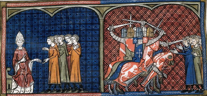 Pope Innocentius III excommunicating the Albigensians (left), Massacre against the Albigensians by the crusaders (right) (British Library, Royal 16 G VI f. 374v)